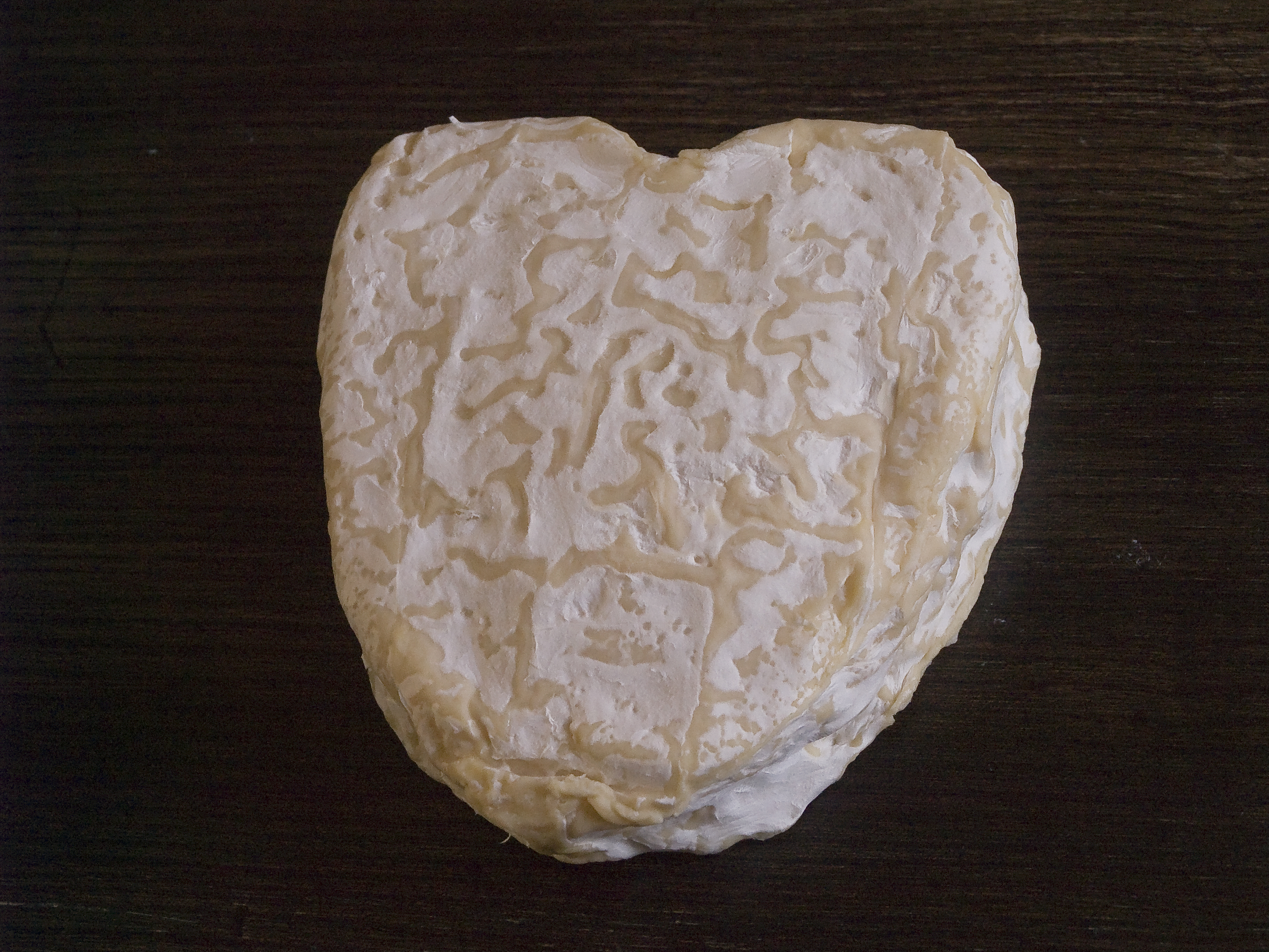 French Neufchâtel is a cheese made in the region of Normandy and usually sold in heart shapes.